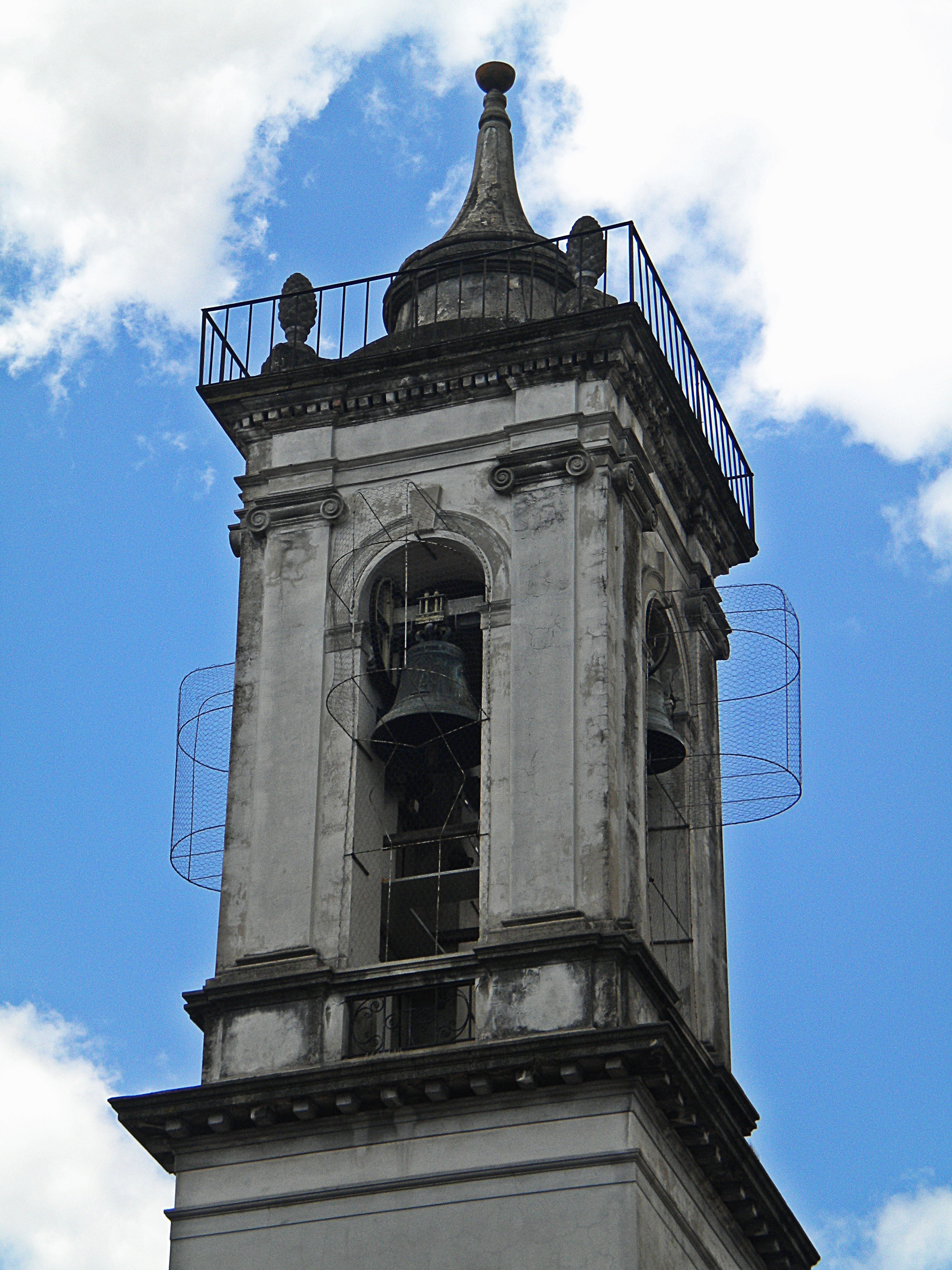 tower bell